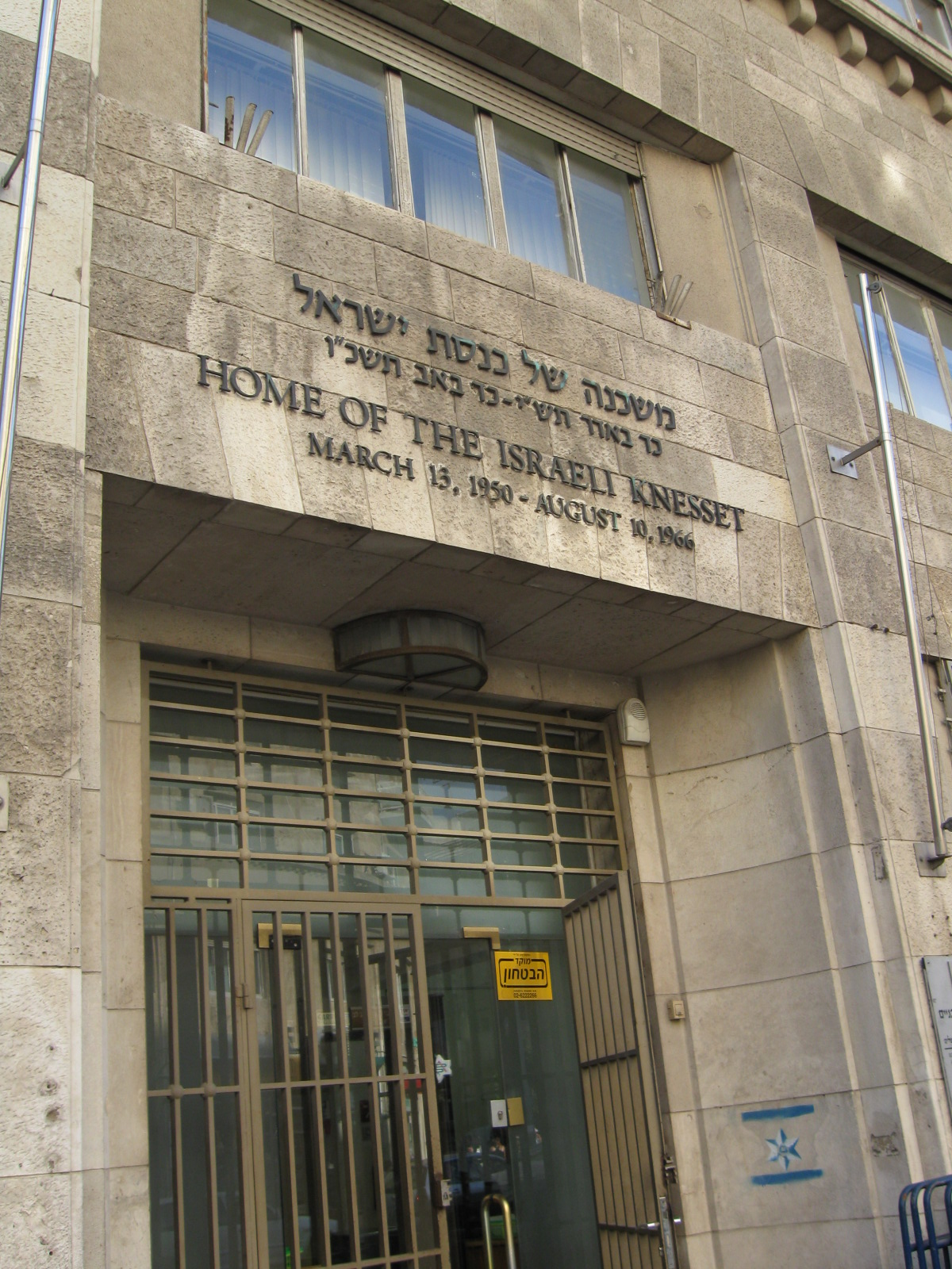 Historic engraving over the entrance to the Frumin Building, King George St., Jerusalem, Israel, home of the Israeli Knesset from 1950-1966.